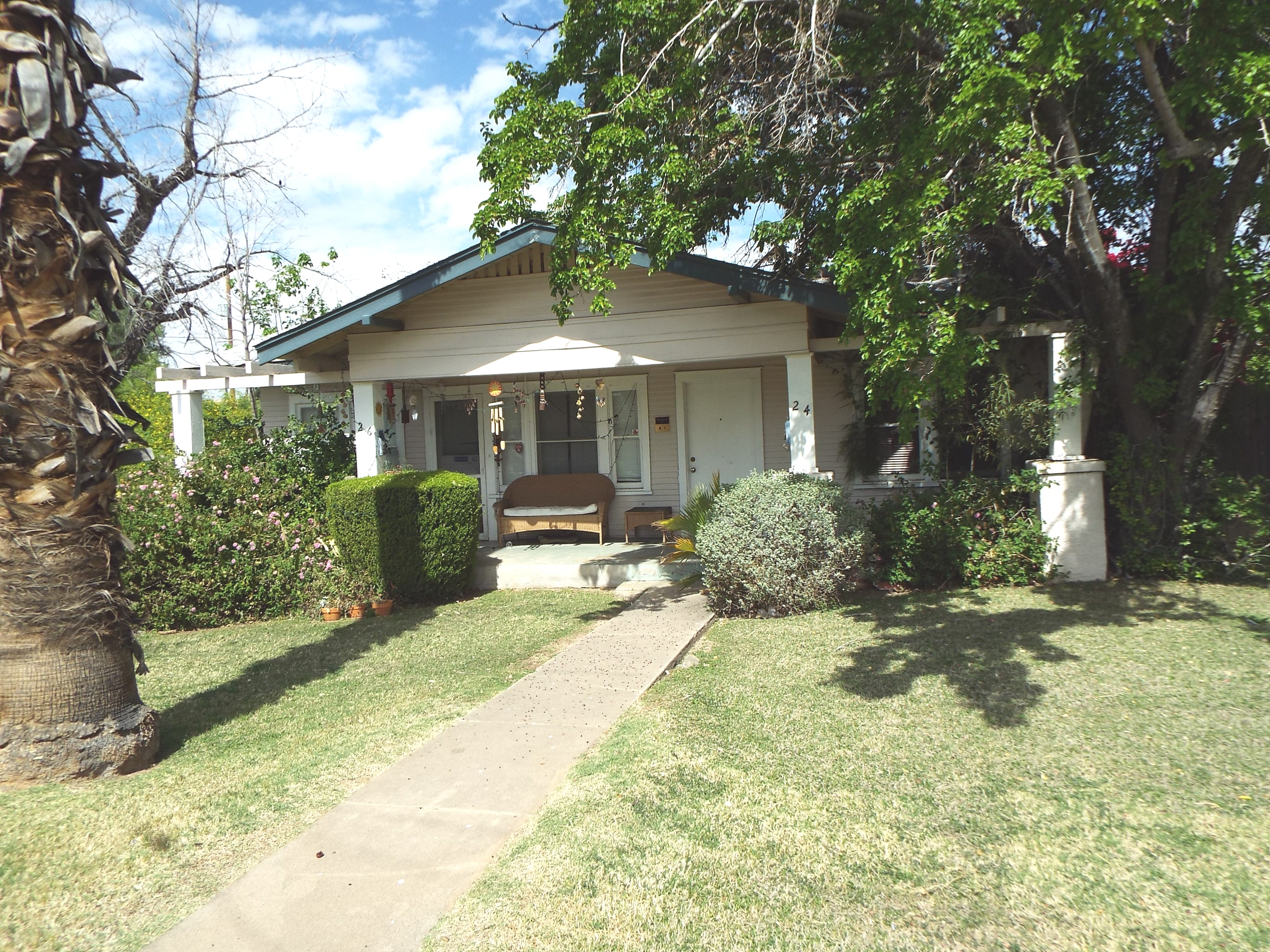 The Windes- Bell House was built in 1920 and is located at 24 9th Street in Tempe, Az. The house is significant for its association with Tempe attorney Dudley Windes and with Tempe pioneer Ellen Bell. The property is listed in the Tempe Historic Property Register.